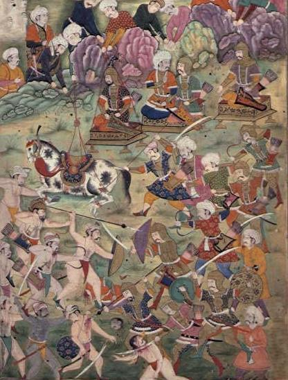 Battle of Ankara (Mughal painting)